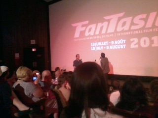 Premeir of the movie Alter Egos at Fantasia Film Festival